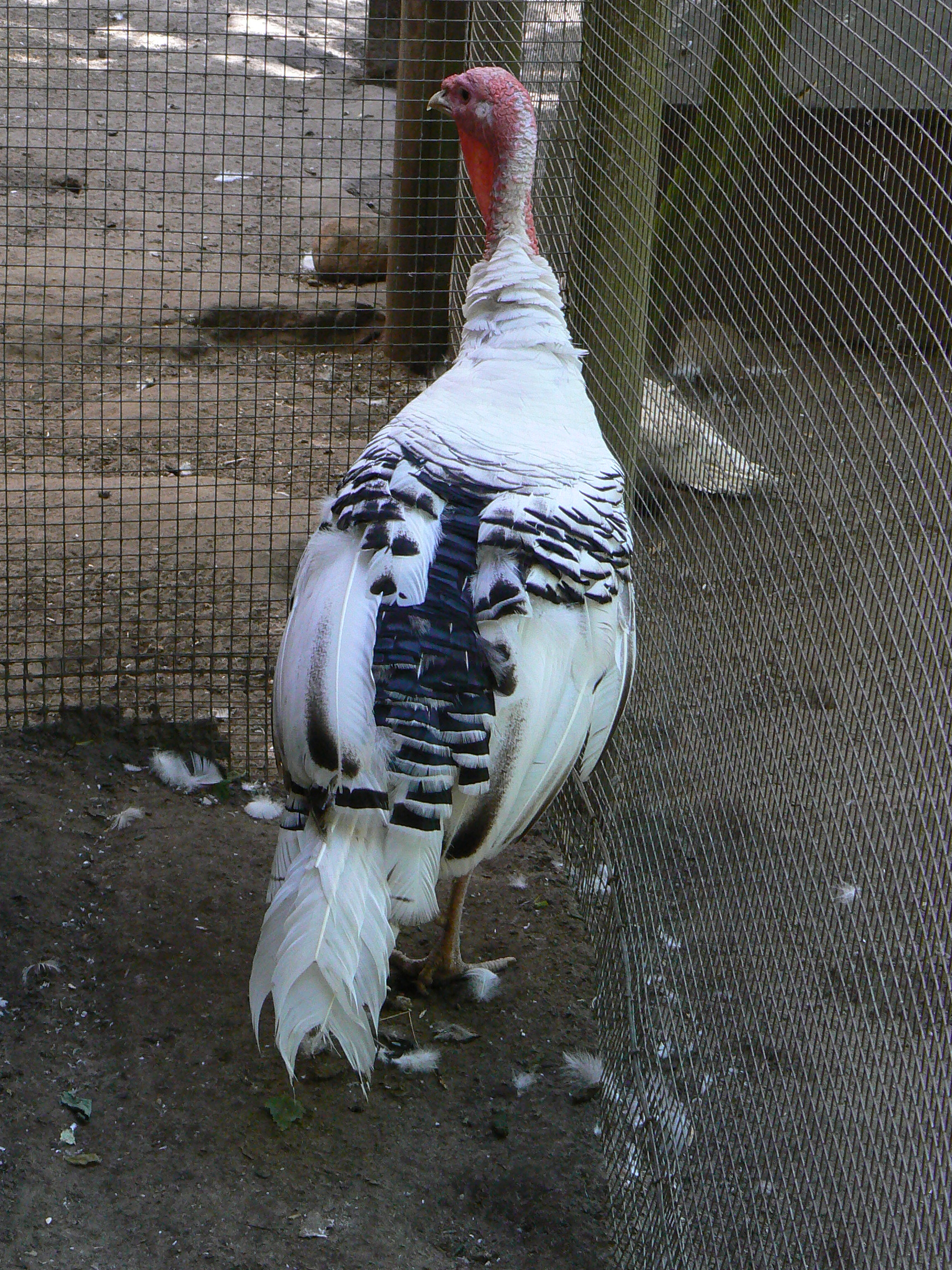 The Royal Palm is a strikingly attractive and small-sized turkey variety. Royal Palms are active, thrifty turkeys, excellent foragers, and good flyers. Standard weights are 16 pounds for young toms and 10 pounds for young hens. The Royal Palm has not been purposefully selected for either growth rate or muscling, being used primarily as an exhibition variety